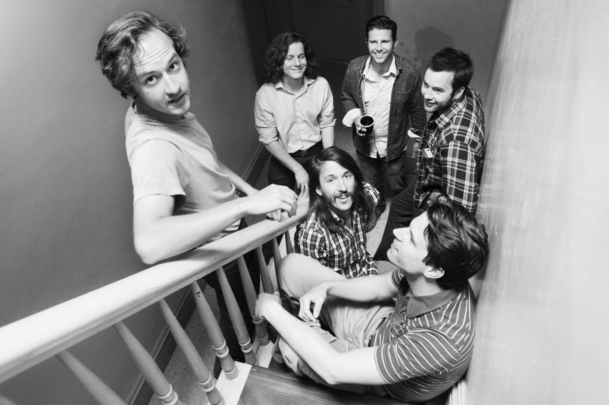 Holy Ghost Tent Revival photo by Caitlin McCann